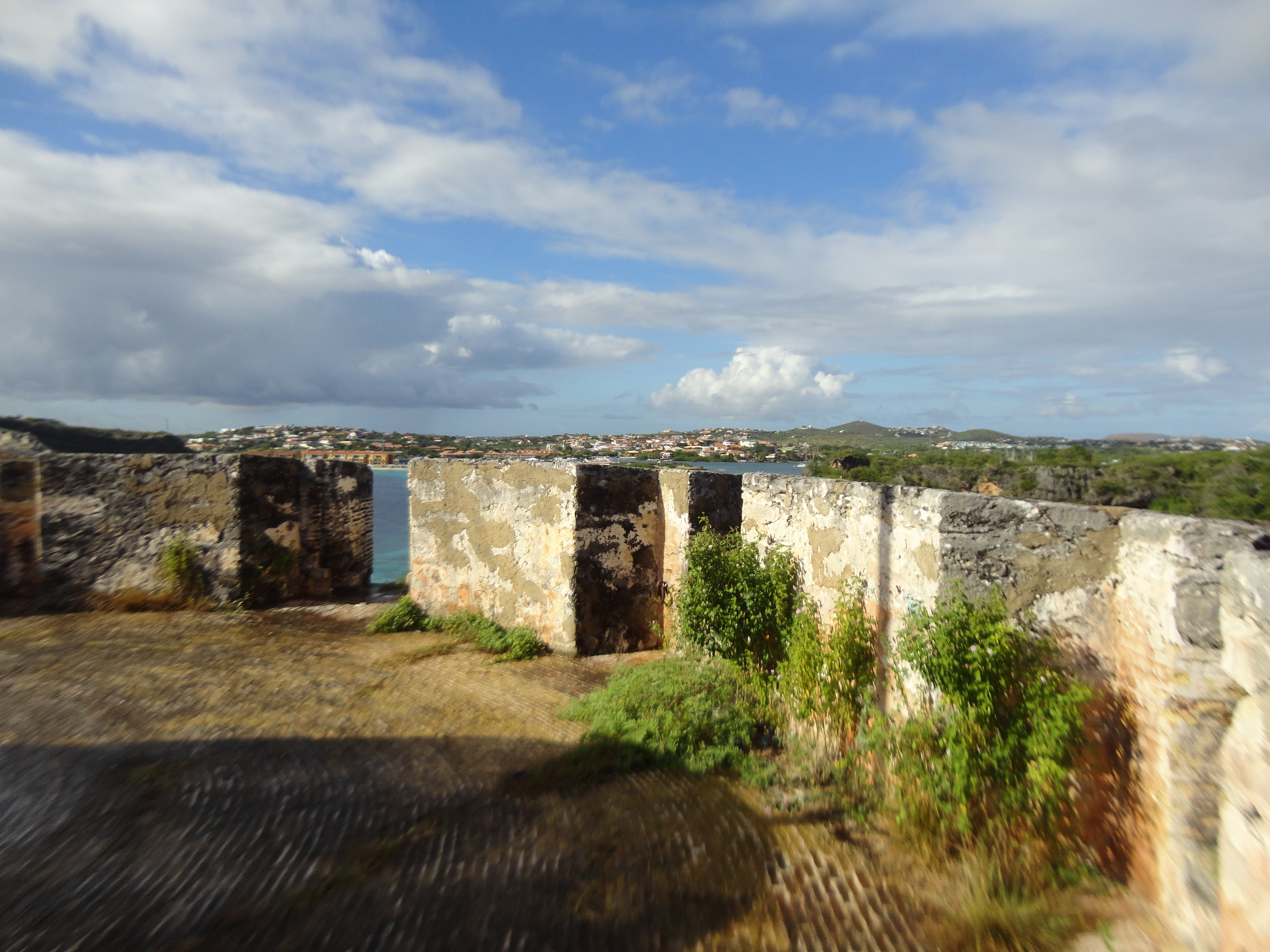 Fort Beekenburg, Curacao